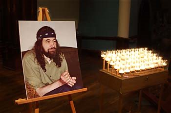 Taken at the memorial for James Chasse